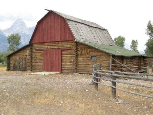 Barn at the 4 Lazy F Dude Ranch in Grand Teton National Park, Wyoming, USA